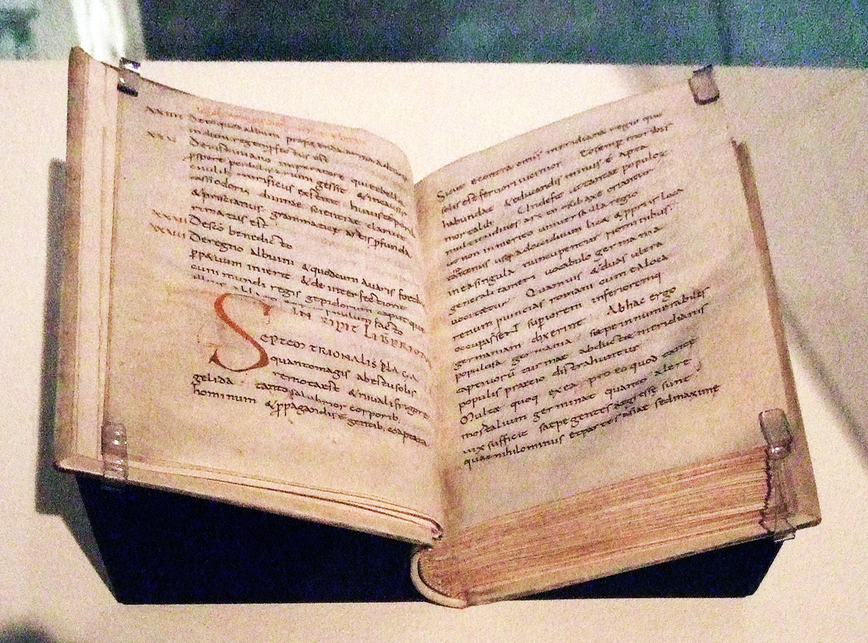 This well-preserved manuscript of the Origo gentis Langobardorum, which contains the saga of the Scandinavian origins of the Lombards, dates to the 10th century, presumably to Reims. Written in red ink on the upper edge of leaf 2v is an ownership notice of the cloister Saint-Remis in Reims. The manuscript contains no miniatures. On the other hand, it is written in a sophisticated and regular Carolingian minuscule. This manuscript is held by the Staatsbibliothek zu Berlin - Preussischer Kulturbesitz (Ms. Phil. 1886). It was photographed while on display from 22 August 2008 to 11 January 2009 in the exhibition "Die Langobarden. Das Ende der Völkerwanderung" at the Rheinisches LandesMuseum Bonn.